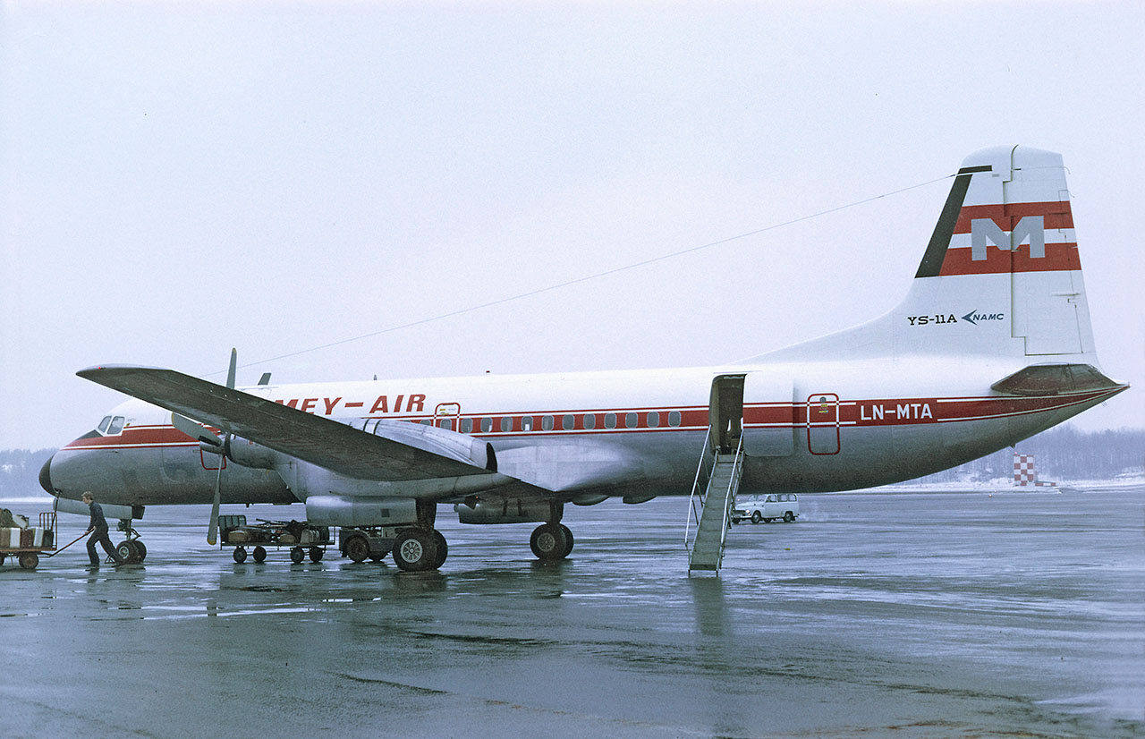 Mey-Air NAMC YS-11A LN-MTA at Stockholm-Bromma Airport